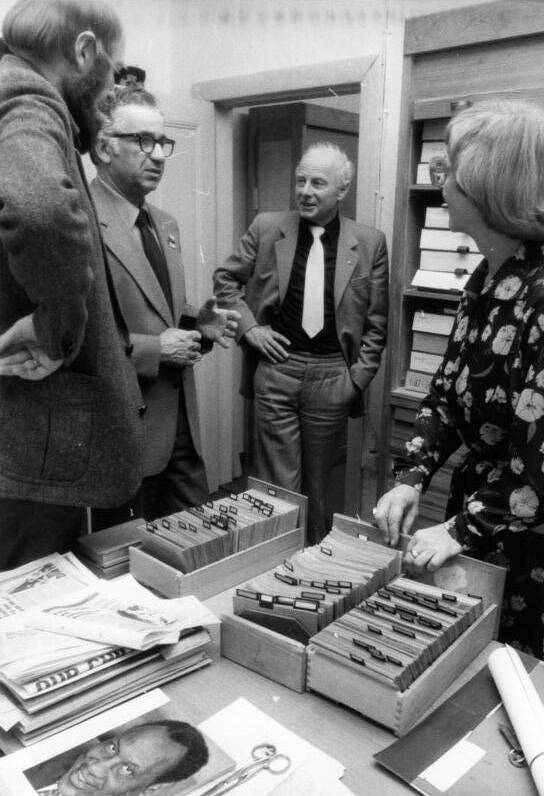 Press Agency ADN-ZB Photographer Rehfeld / 14 April 1981 Berlin: 10th Party Congress / The delegation of the Communist Party USA, which is currently in the German Democratic Republic (GDR) for the 10th Party Congress of the Socialist Unity Party, visited the Paul Robeson Archive of the Academy of the Arts of the GDR. The chairman of the Paul Robeson Archive of the GDR, Prof. Franz Loeser (2nd from right), informed David Silberstein (2nd from left), a member of the delegation, about the archive's work.